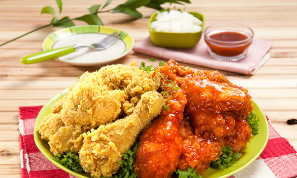 banban-chikin (half and half)